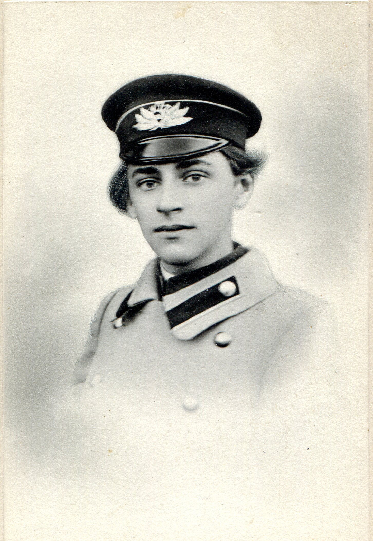 Mikhail Feldshtein, gimnazist, in future Russian historian, a victim of the Stalin repressions